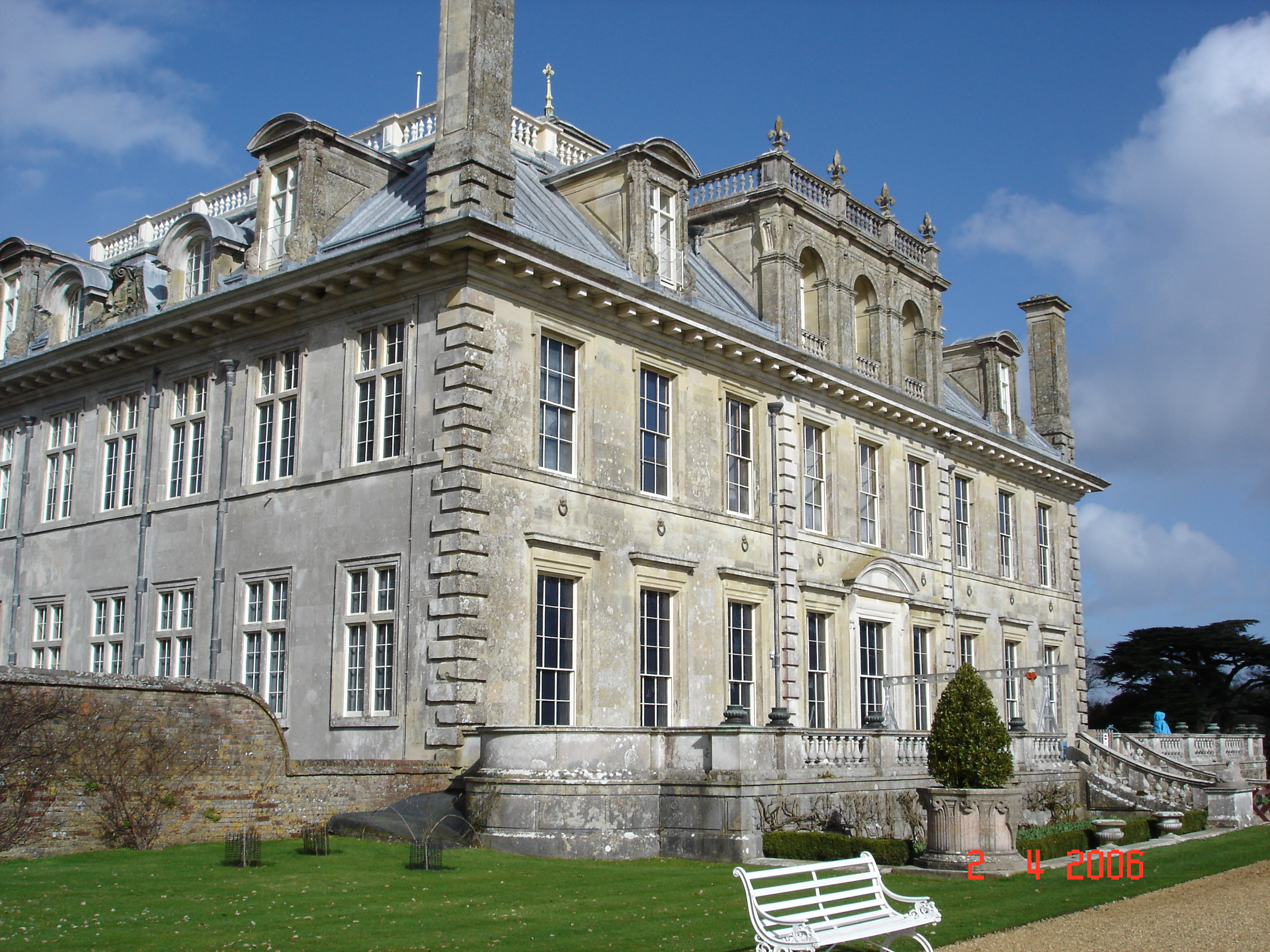 Kingston Lacy, Dorset